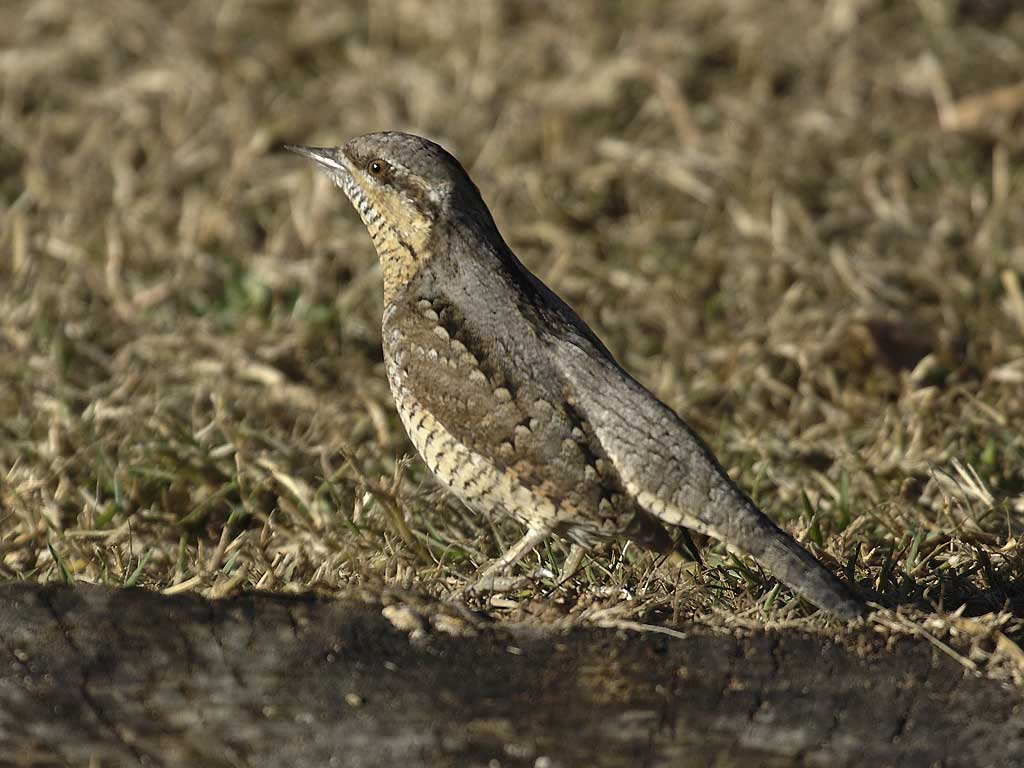 Eurasian Wryneck, Netherlands